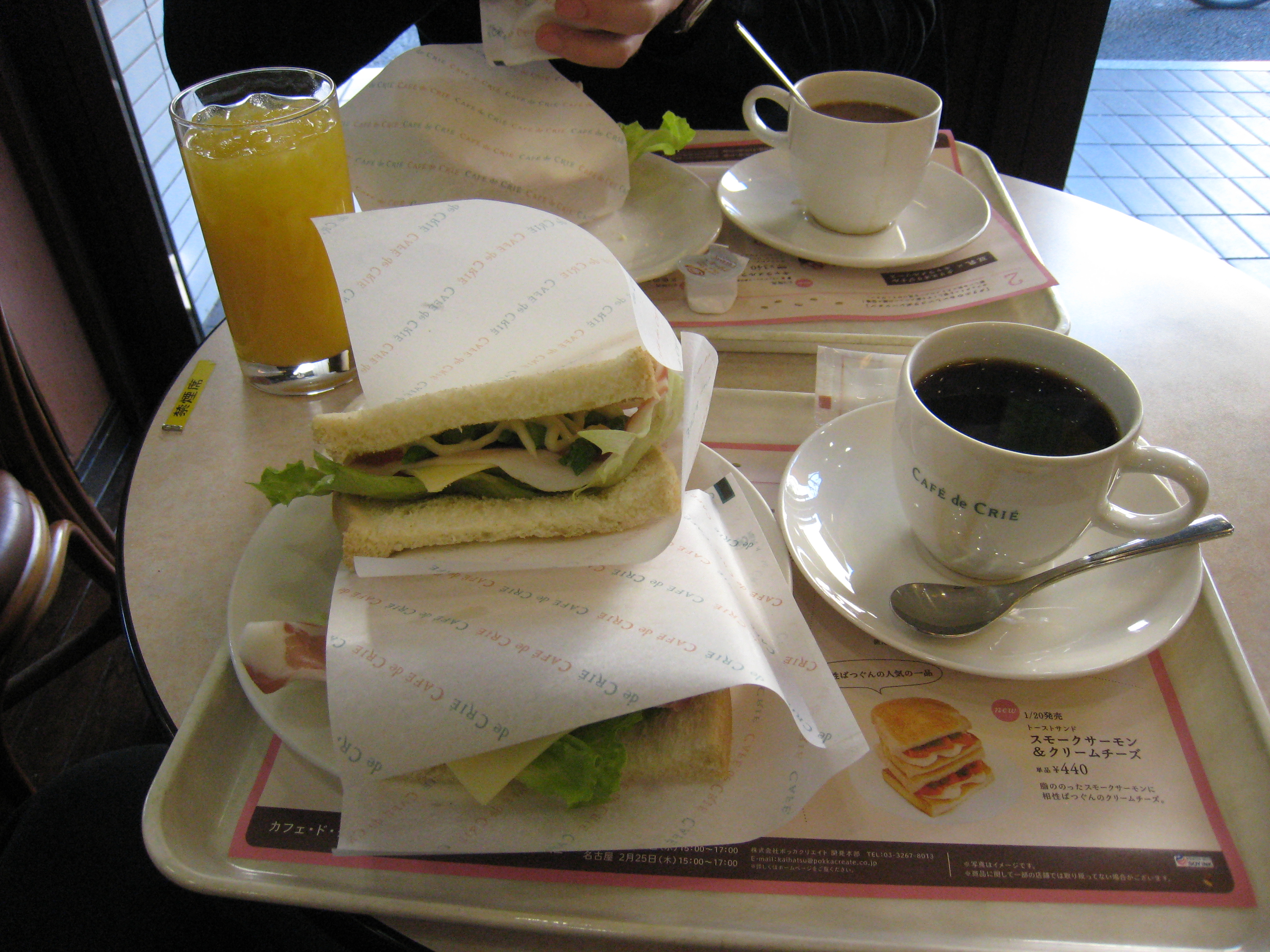 A lunch of Café de Crié, a café franchise of Japan.